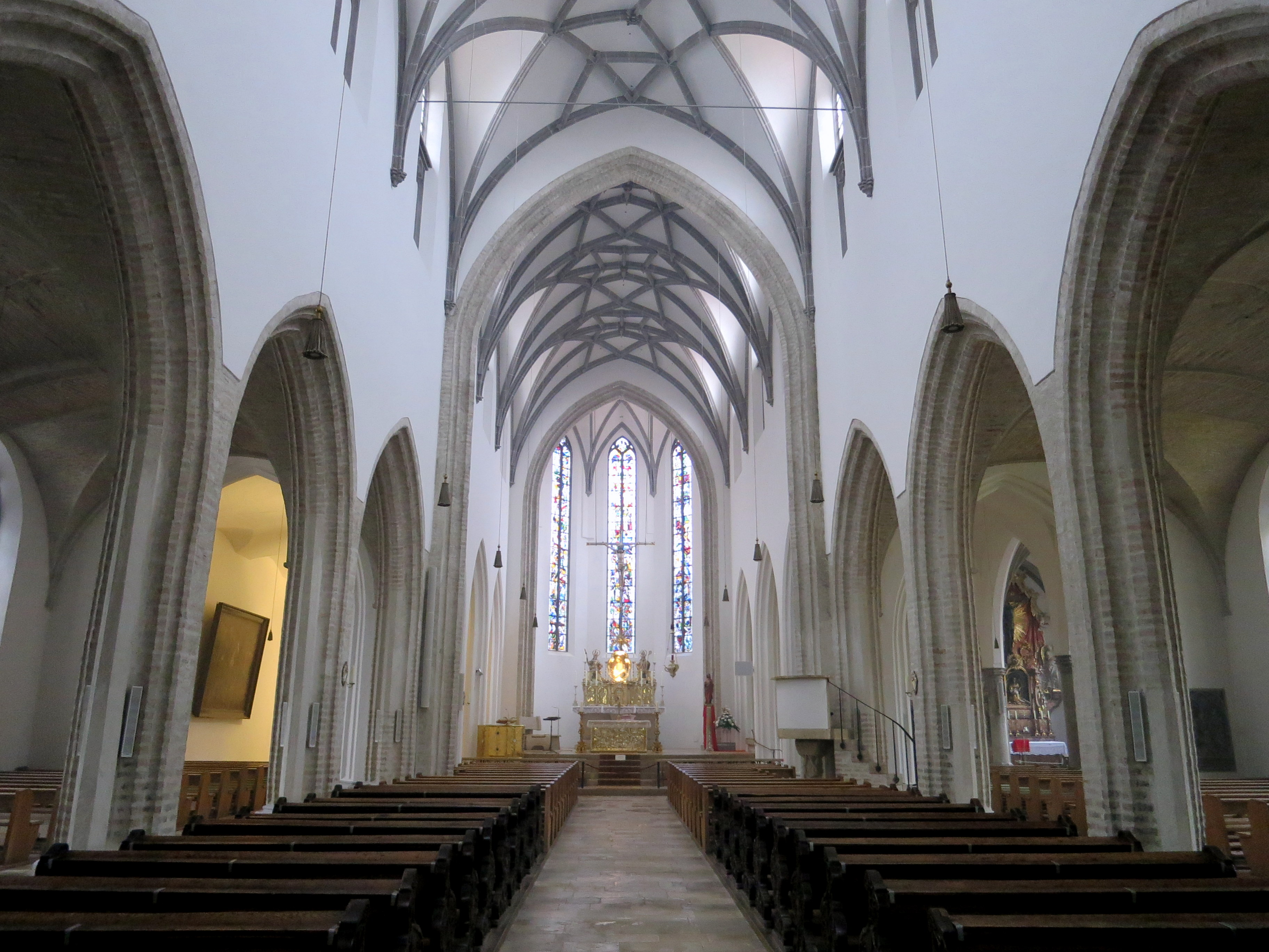 St. Georg is a former church of a monastery, nowadays a parish church